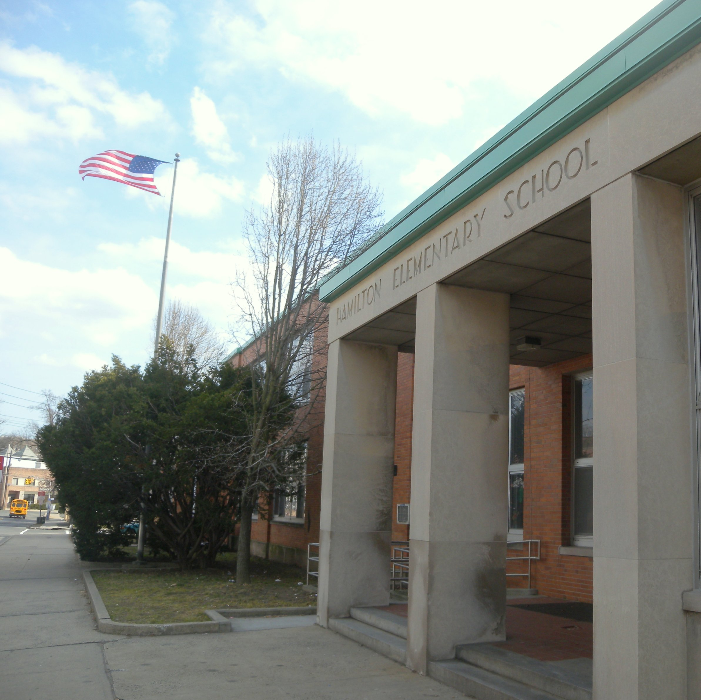 Looking southeast from Oak Street at Hamilton Elementary.